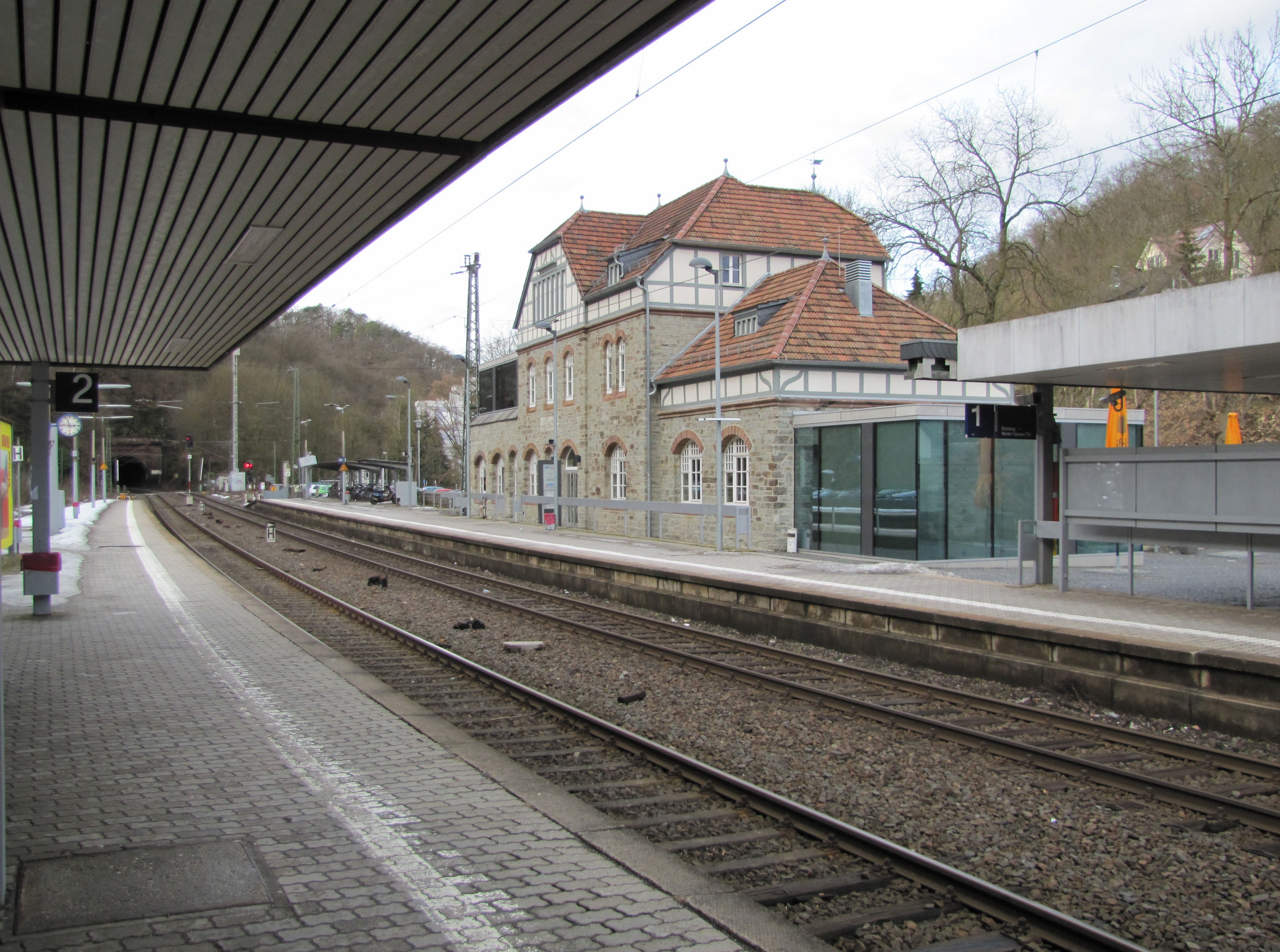 "Eppstein", town in the Main-Taunus-Kreis, Hesse, Germany